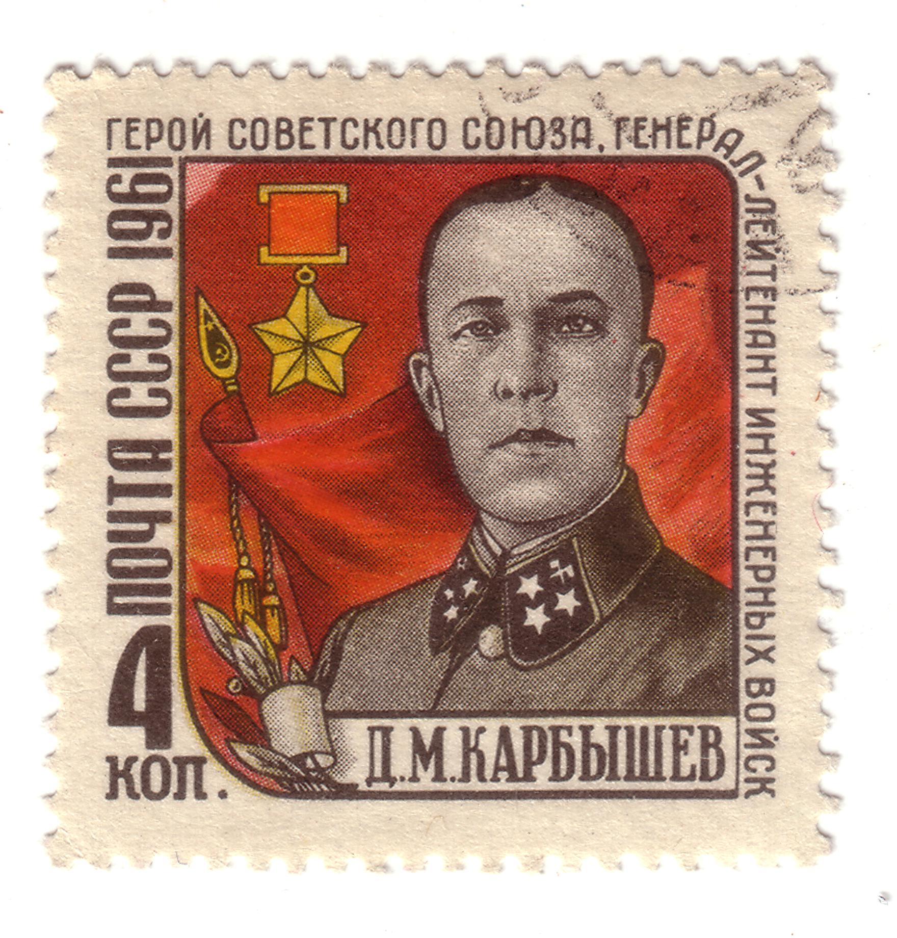 USSR stamp of 1961. Dmitry Karbyshev.